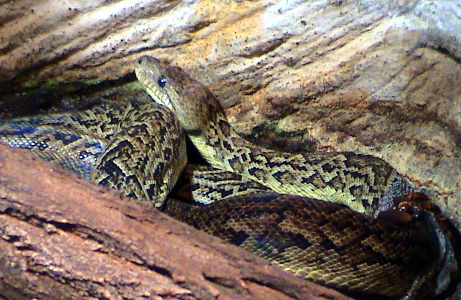 Epicrates angulifer, Prague's Zoo, photo by Eduard Horak